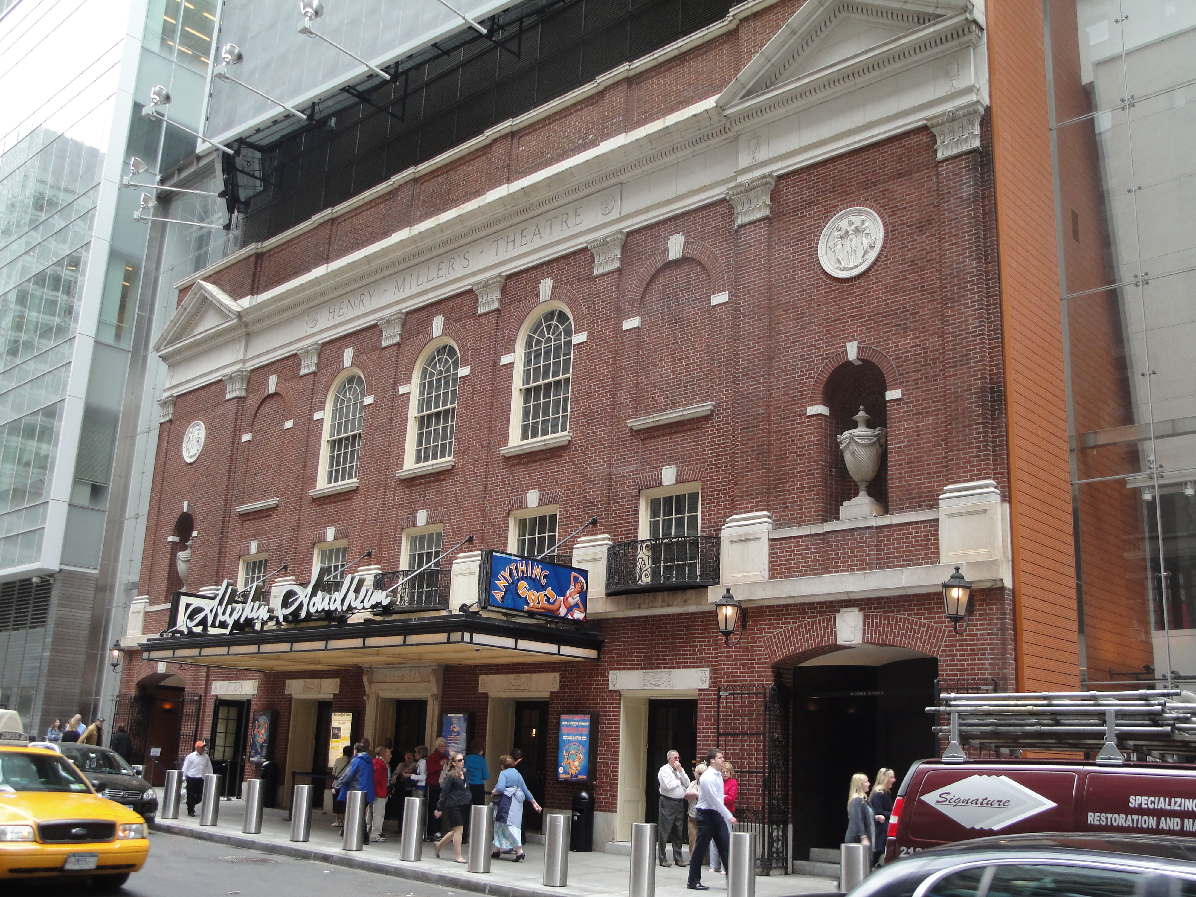 'Anything Goes' at the Stephen Sondheim Theatre in New York City.